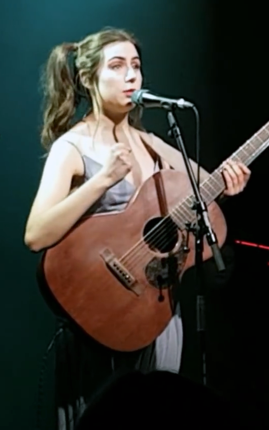 Dodie Clark performing at the La Madeleine in Brussels during her You Tour, 28 February 2018